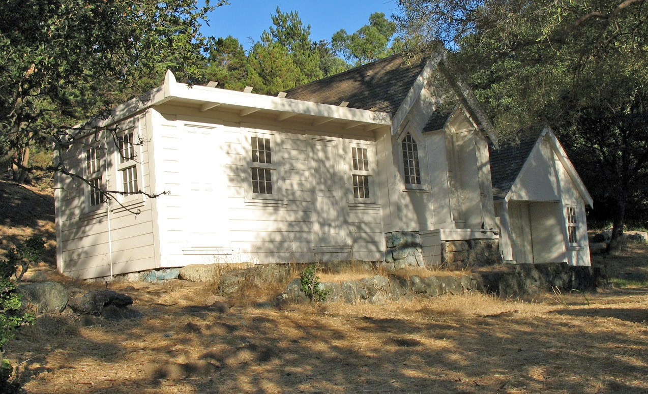 National Register of Historic Places listings in Alameda County, California. The Abbey-Joaquin Miller House, Joaquin Miller Rd. and Sanborn Dr., Oakland, California, USA. Photographed 2008-09-28 from the grounds to the southwest of the house, north of Joaquin Miller Rd.